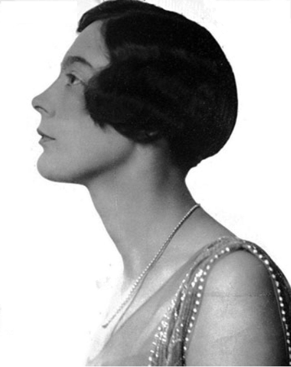 Viva Talbot, resident of Solberge Hall, Northallerton